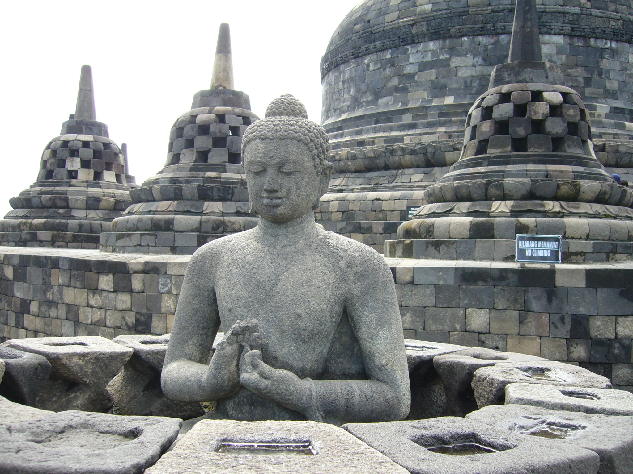 Borobudur Temple Compounds (Indonesia)